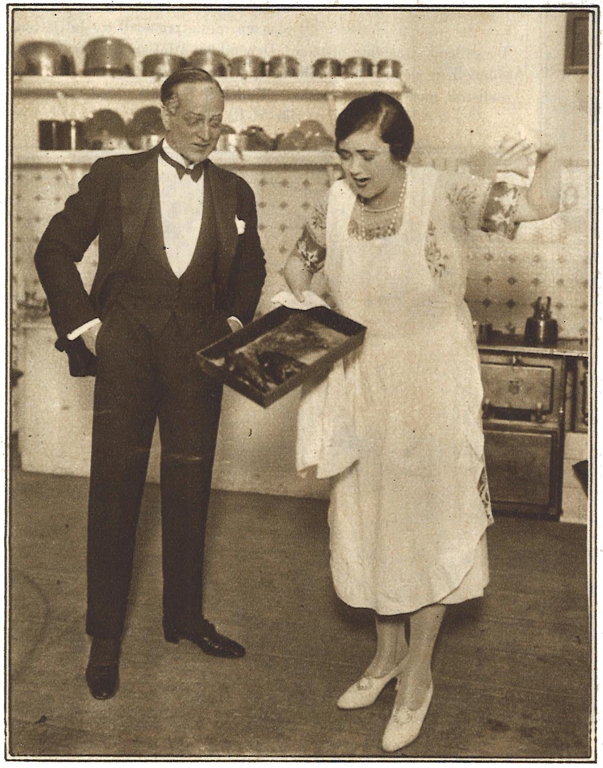 Swedish actors John Westin and Tollie Zellman in the play Fröken X (= Miss X) at Djurgårdsteatern (1925).